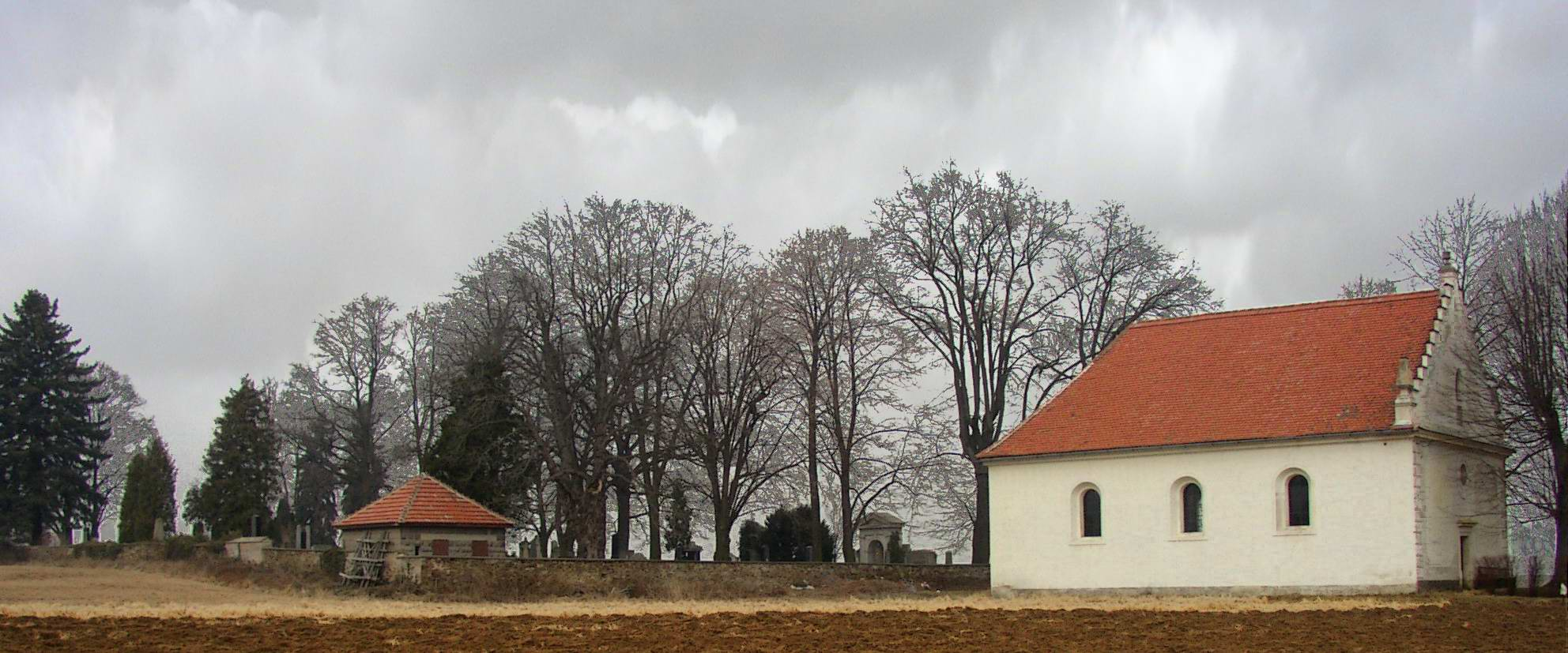 Protestant church with churchyard in Libenice, Czech Republic.